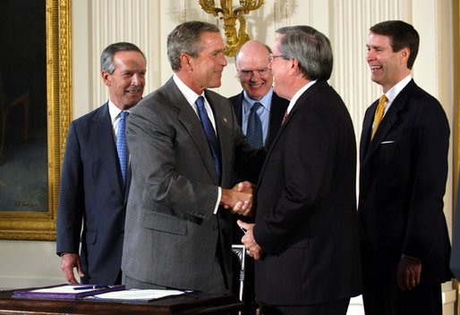 President George W. Bush shakes the hand of Congressman Bill Thomas, R-Calif., after signing the Jobs and Growth Tax Reconciliation Act of 2003 in the East Room Wednesday, May 28, 2003. Also pictured are, from left, Secretary of Commerce Donald Evans, Secretary of the Treasury John Snow and Senate Majority Leader Bill Frist, R-Tenn. White House photo by Eric Draper